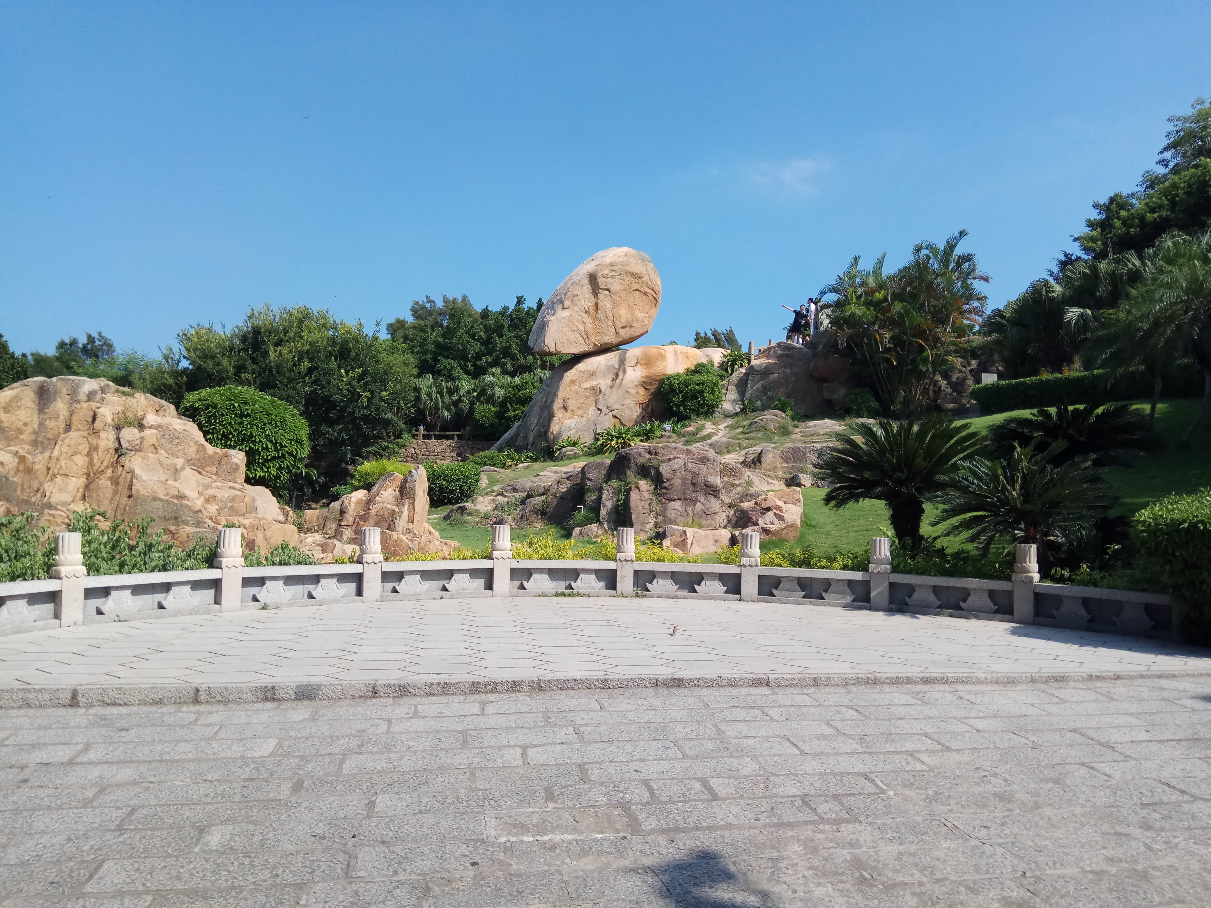 Fengdongshi Stone in Dongshan, Fujian, P.R.China. 中文（中国大陆）: 位于中华人民共和国福建省东山县的风动石。